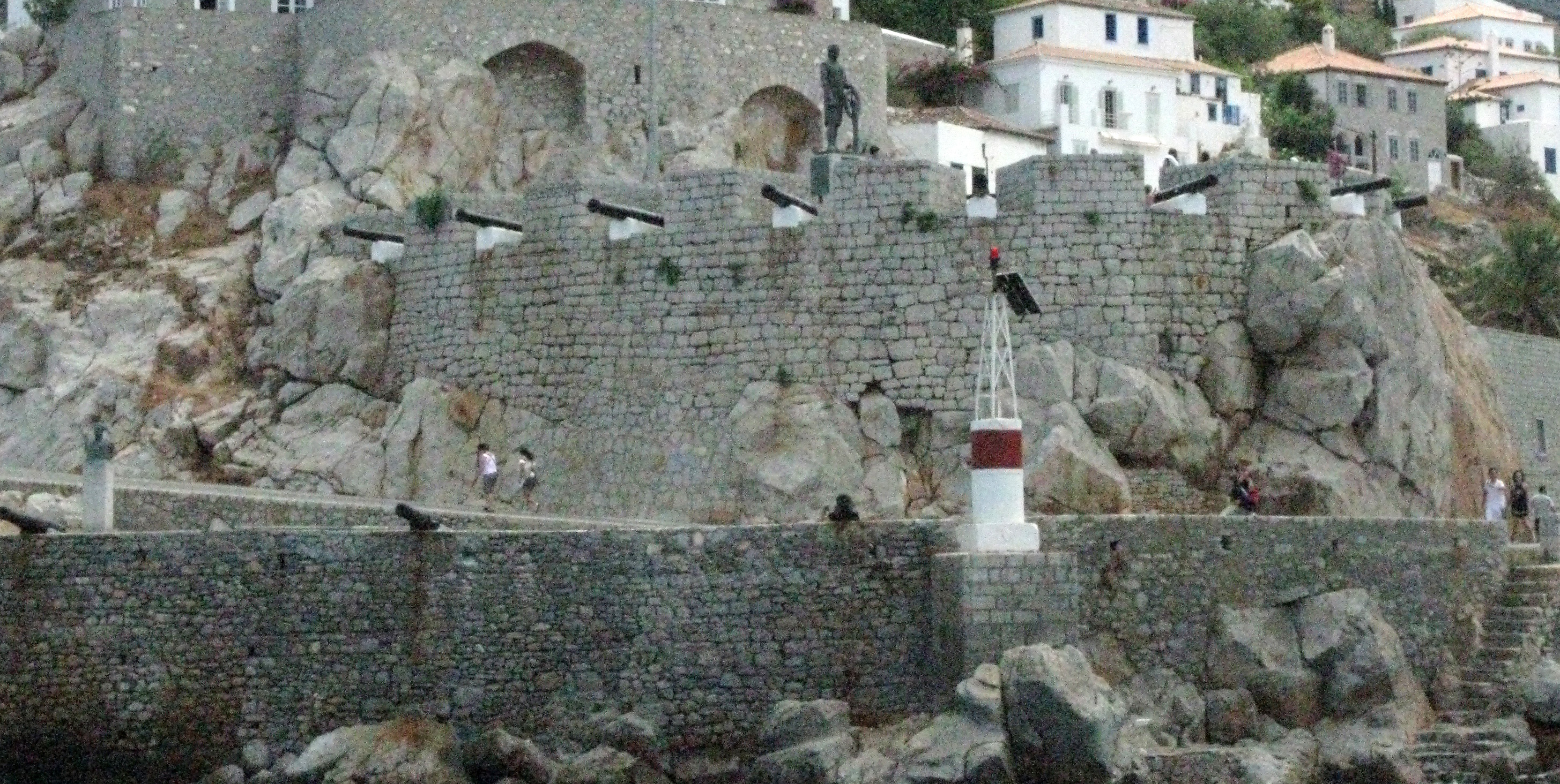 Port battary of Hydra island, Greece.